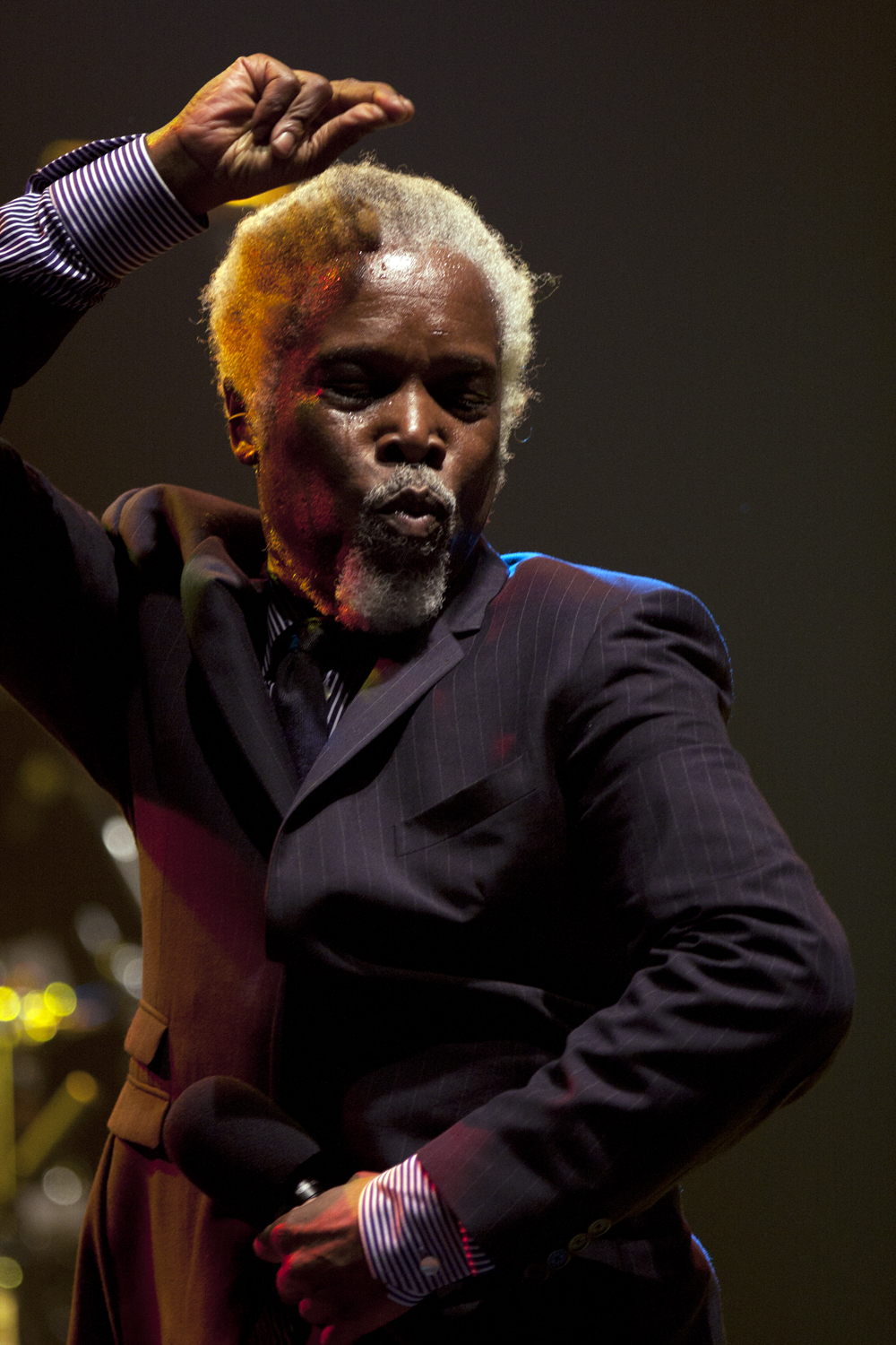 Billy Ocean